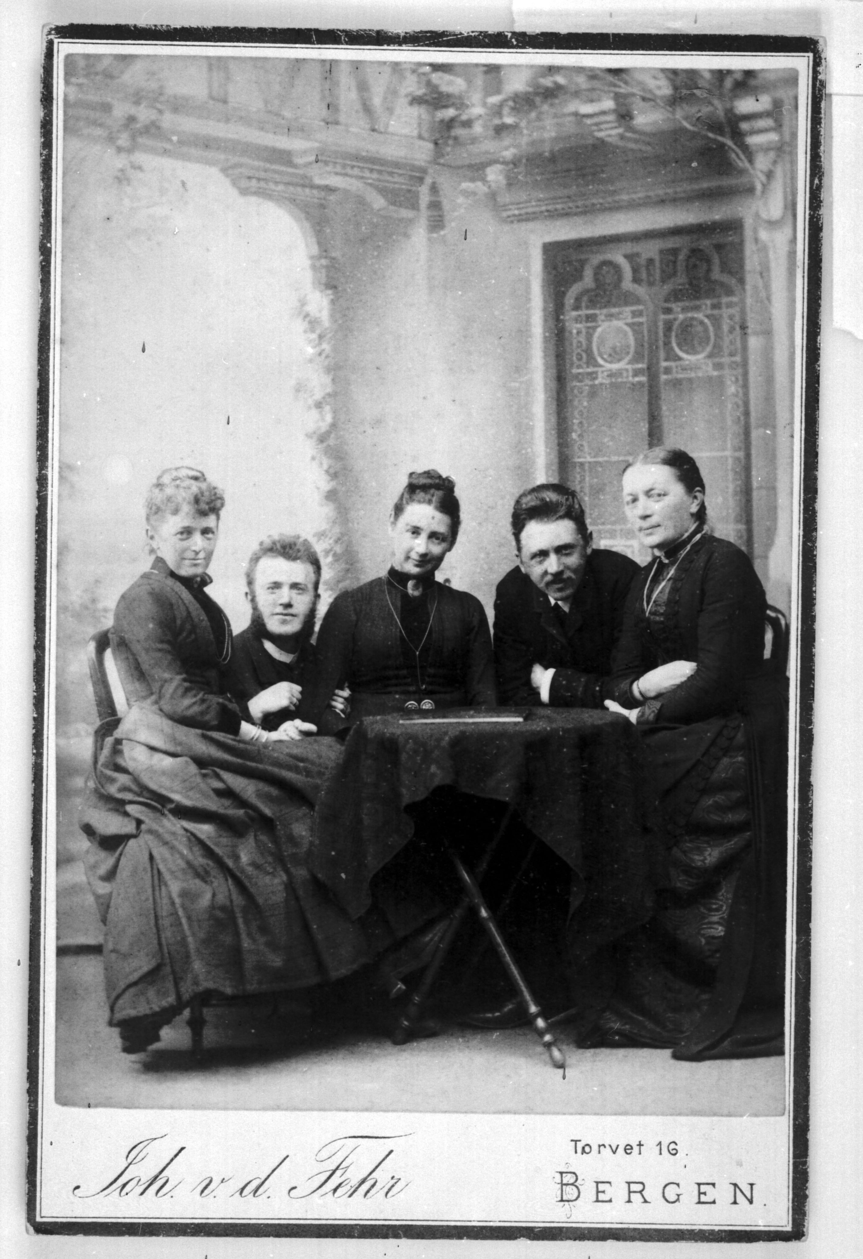 Artist: Joh. v. d. Fehr Date/place: Bergen Subject: Frants & Marie Beyer with friends Medium: photographic positive, B&W Notes: none Persistent URL: [#//bergenbibliotek.no/digitale-samlinger//engelsk/-intro-eng” Original belongs to the Edvard Grieg Archives at Bergen Public Library] Original reference: EGM0278